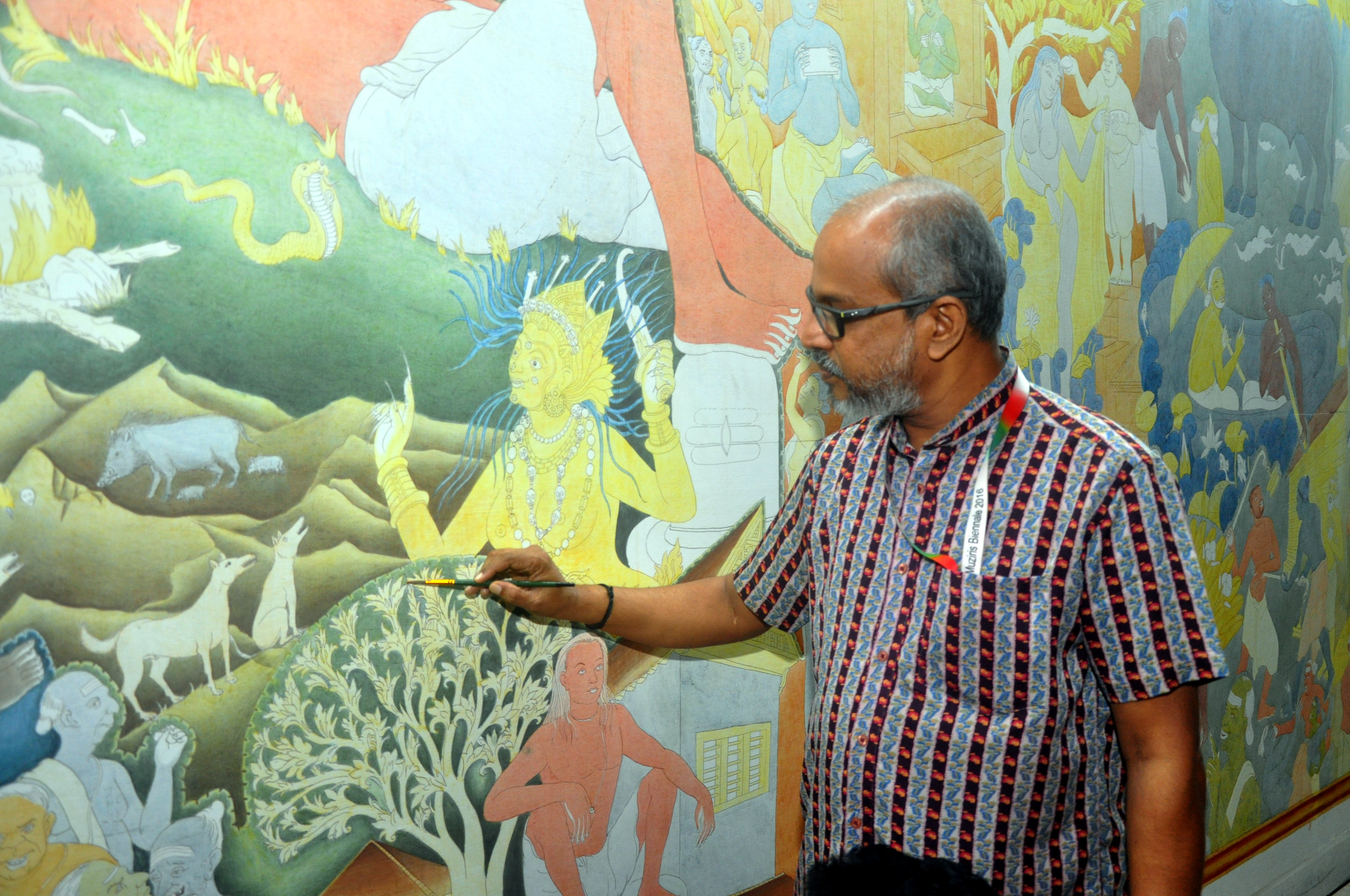 Artist Pk sadanandan in work, in Kochi-Muziris Biennale 2016